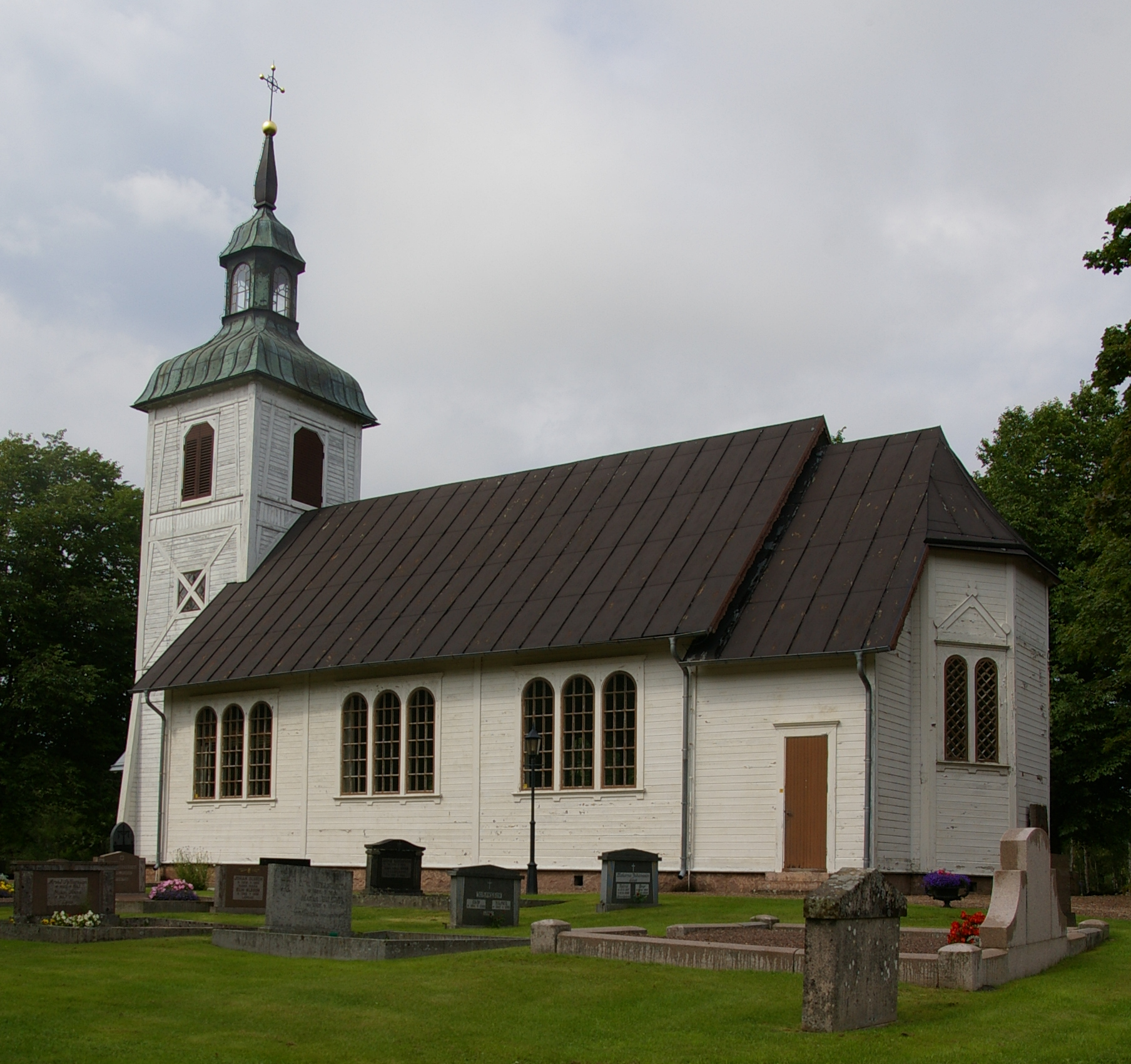 Hällestads kyrka (Swedish:Church of Hällestad) in Västergötland, Sweden.